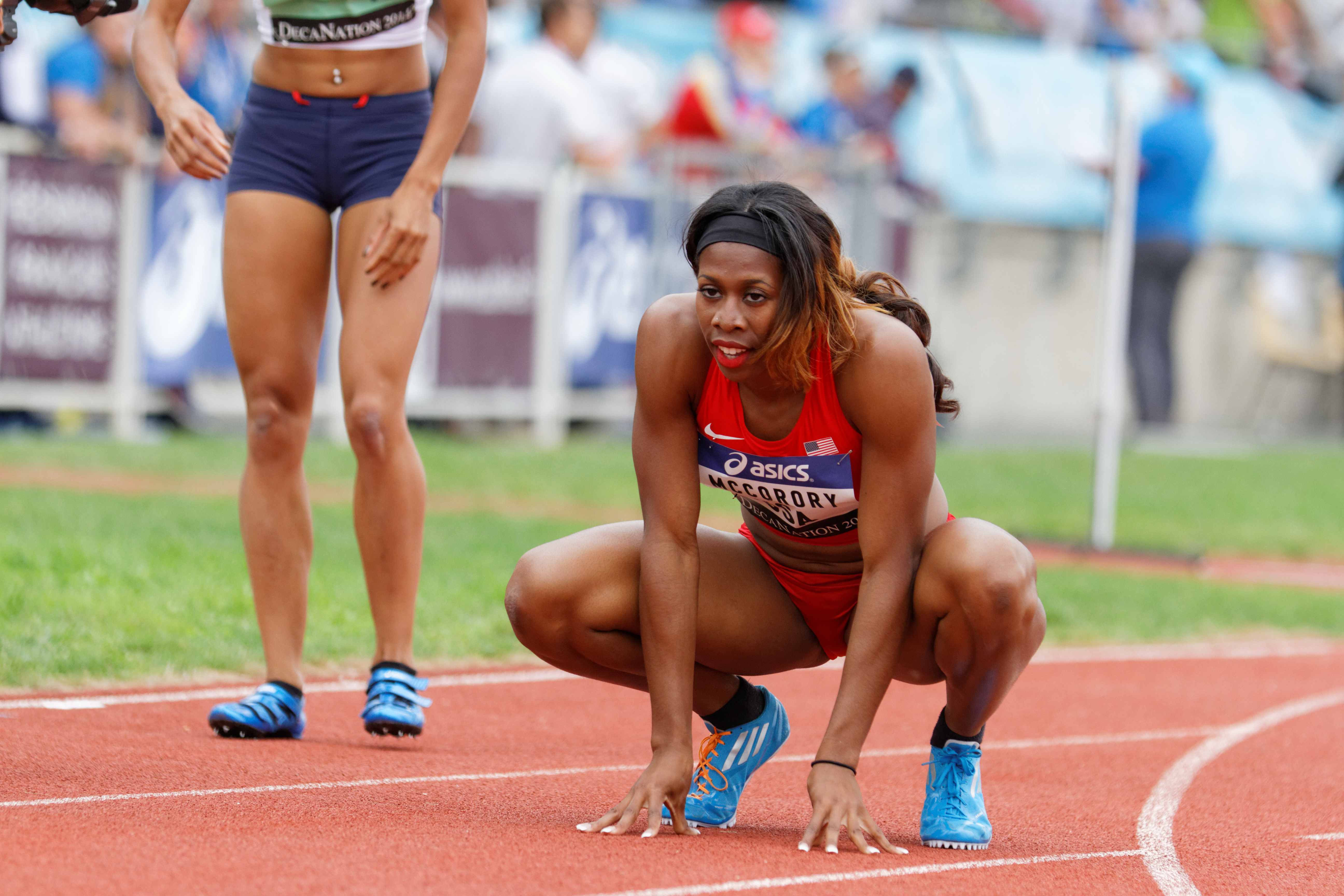 DécaNation 2014